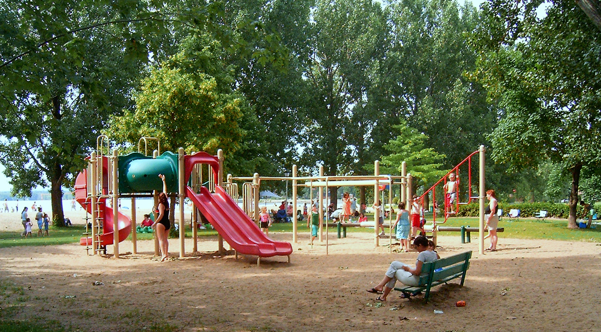 mine